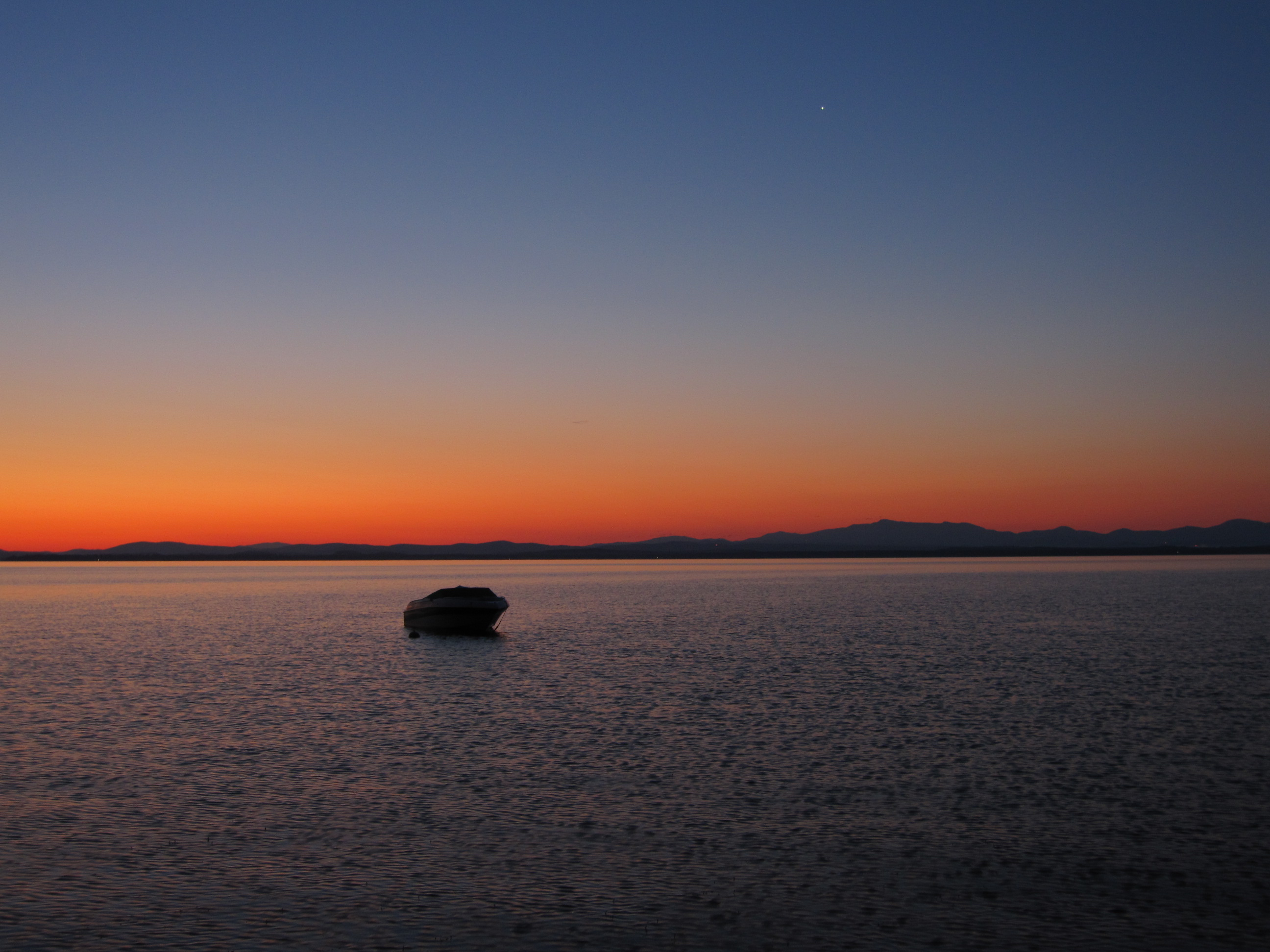 Lake Champlain at sunrise looking at vermont